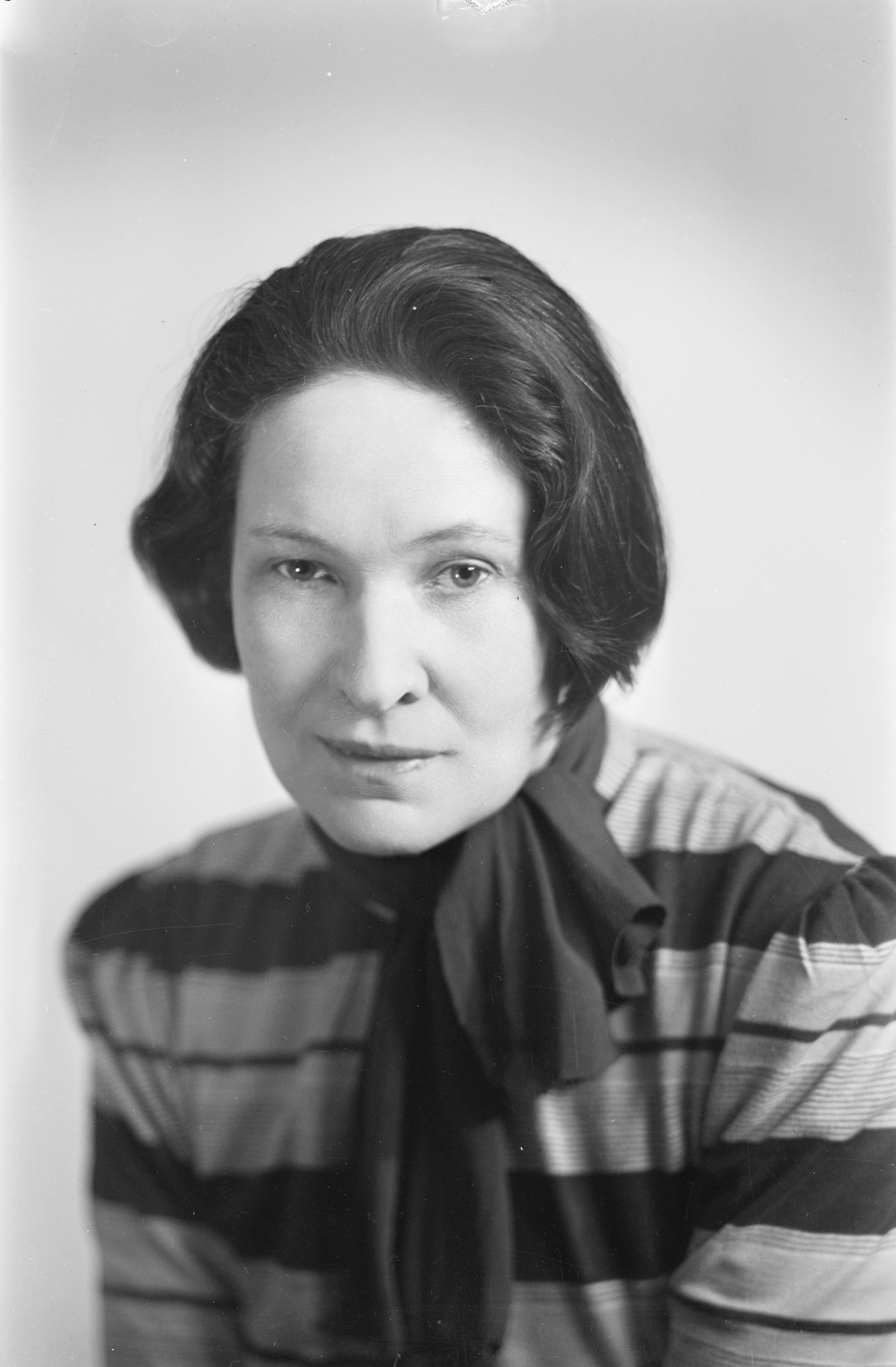 Photograph of the Finnish painter Lyyli Visanti (1893–1971).